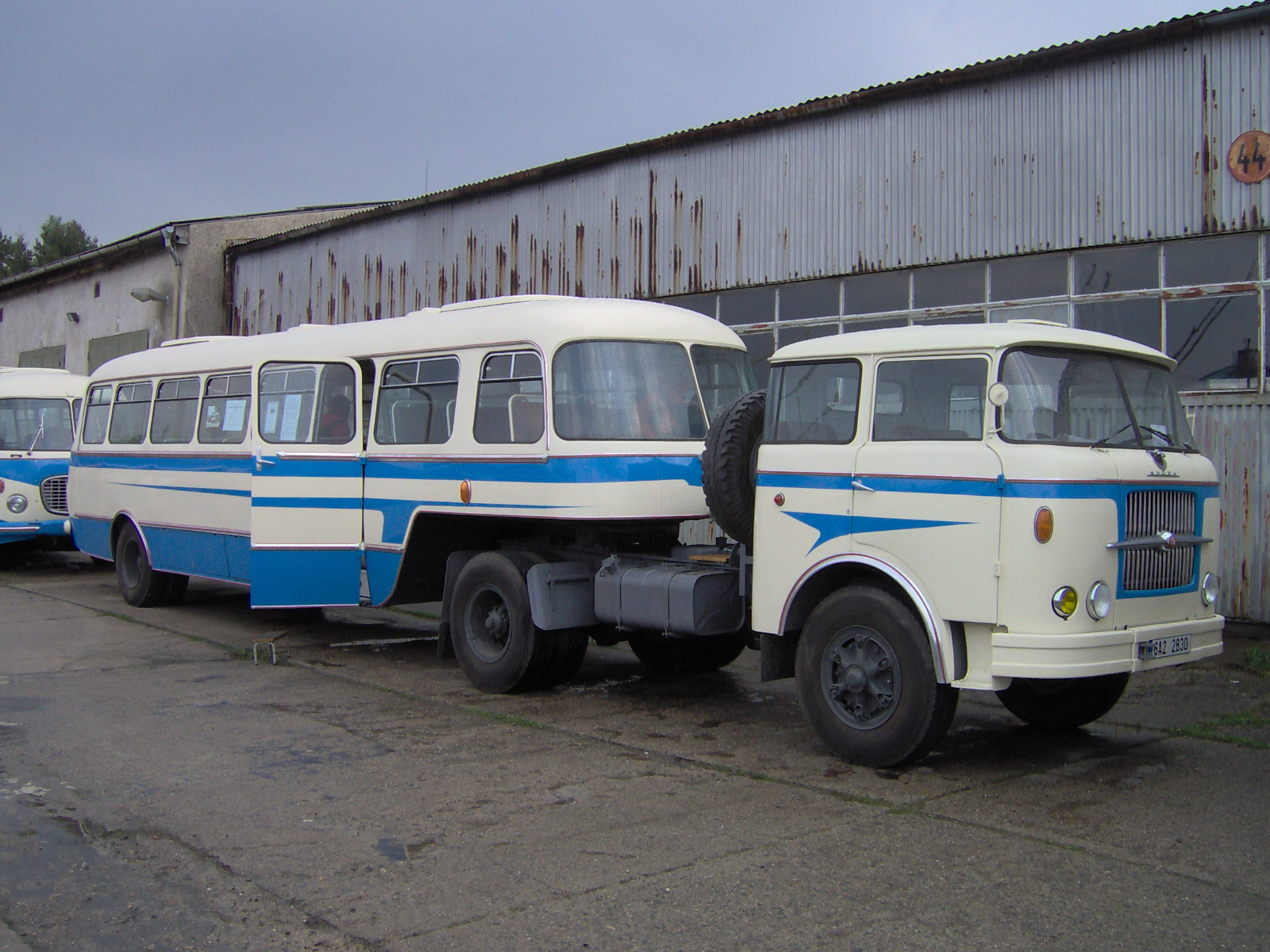 Historical Škoda 706 RTTN truck with Karosa NO 80 trailer in Brno. Trailer bus built 1958, ČSAP Nymburk operator.